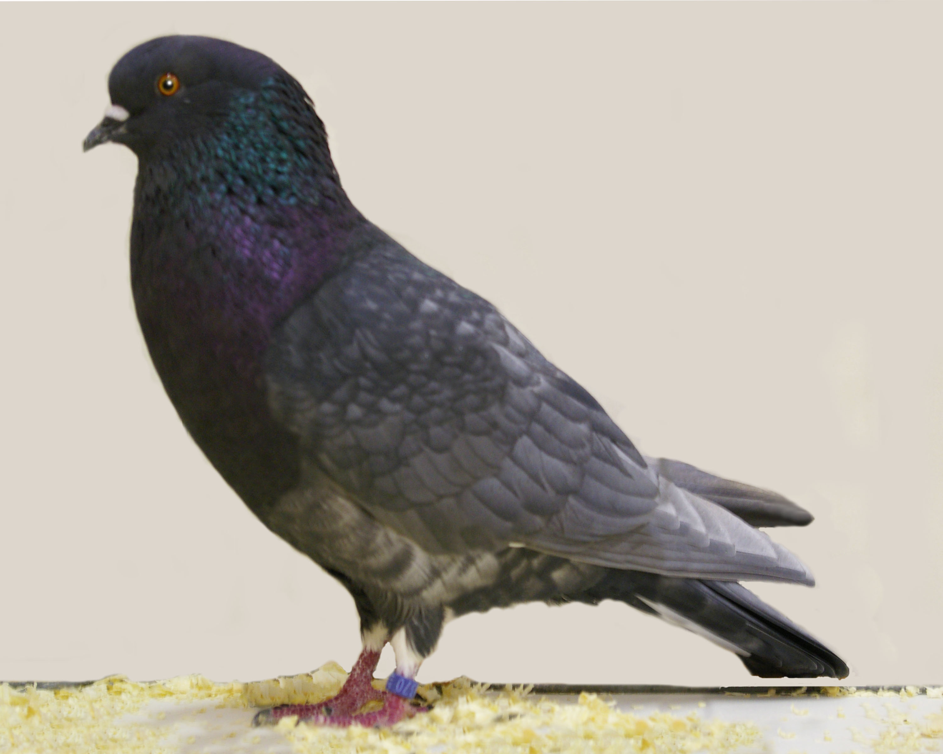 Birmingham Roller (Andalusian Blue) scottish flying breeds show, stirling. 10th. nov. '07